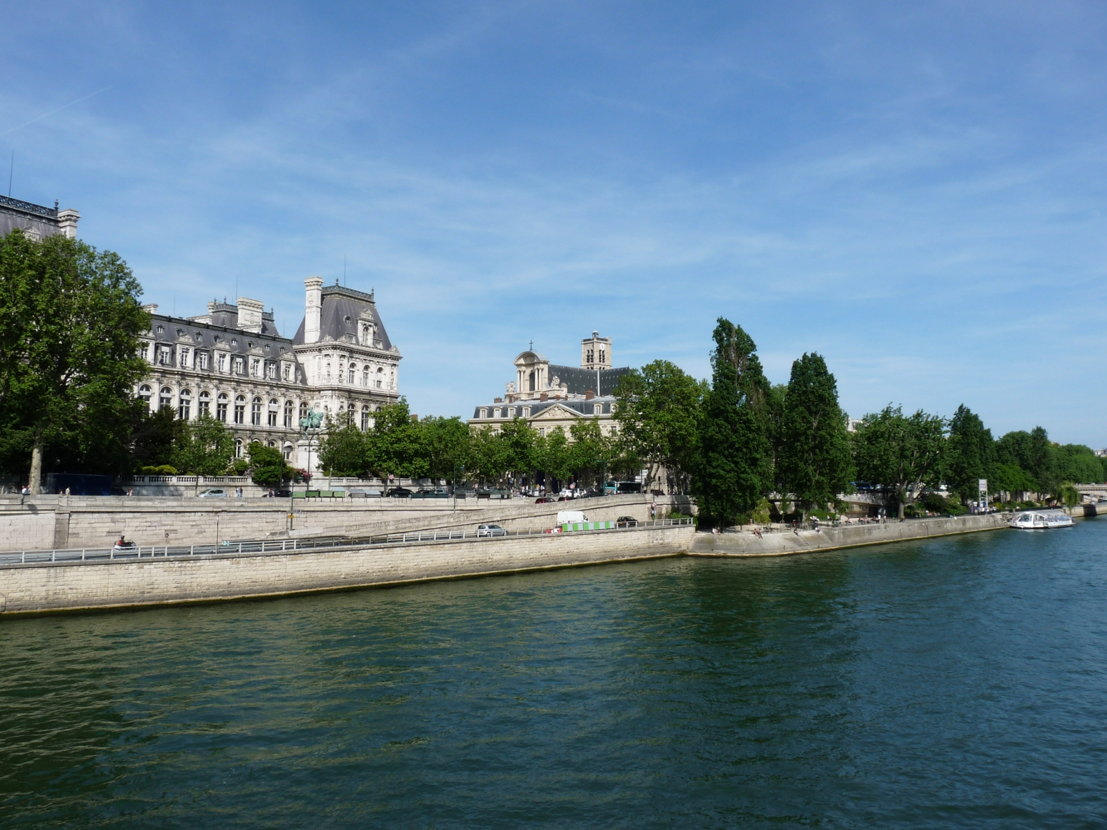 Quai de l'Hôtel de Ville in Paris. Hotel de Ville to the left, church Saint-Gervais in the center.